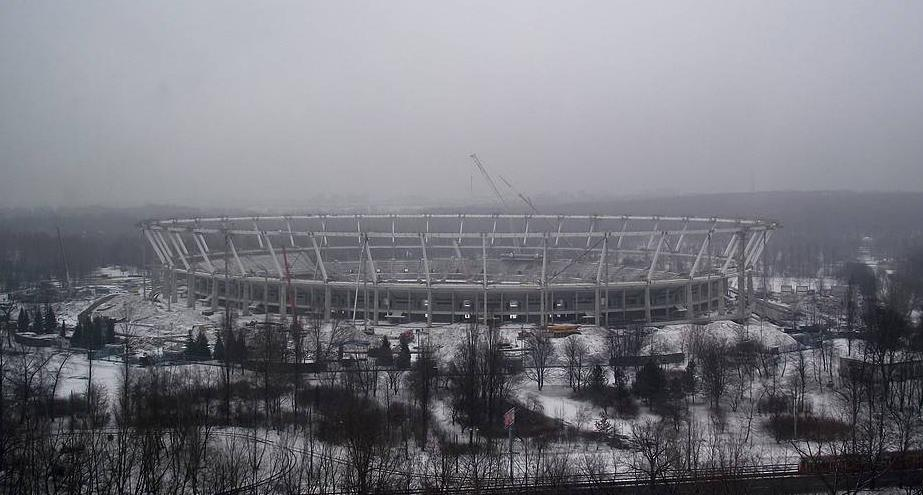 National Silesian Stadium in Chorzów, Poland, under construction, foto by Marek Borys,2011-02-19